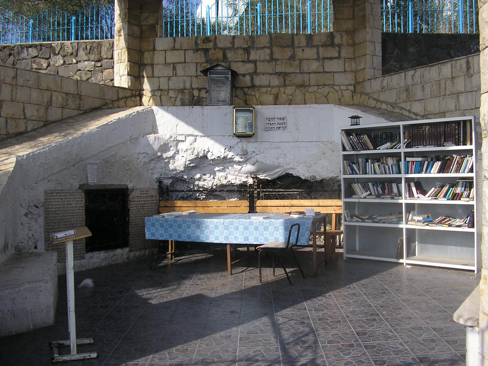 Rabbi Akiva's grave, in Tiberias, Israel.